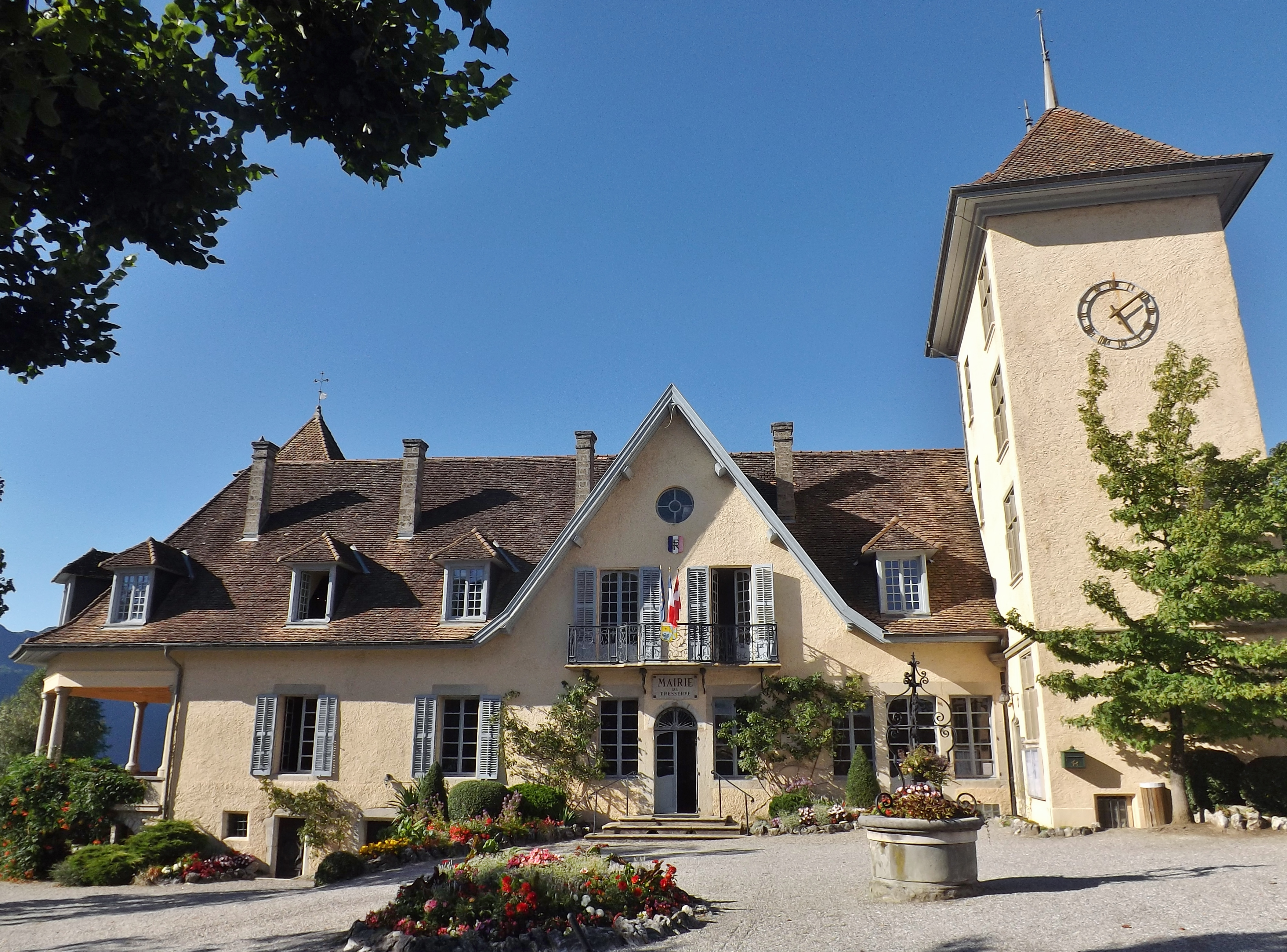 Sight of the French commune of Tresserve town hall, on the heights of Aix-les-Bains and the lac du Bourget lake, in Savoie.